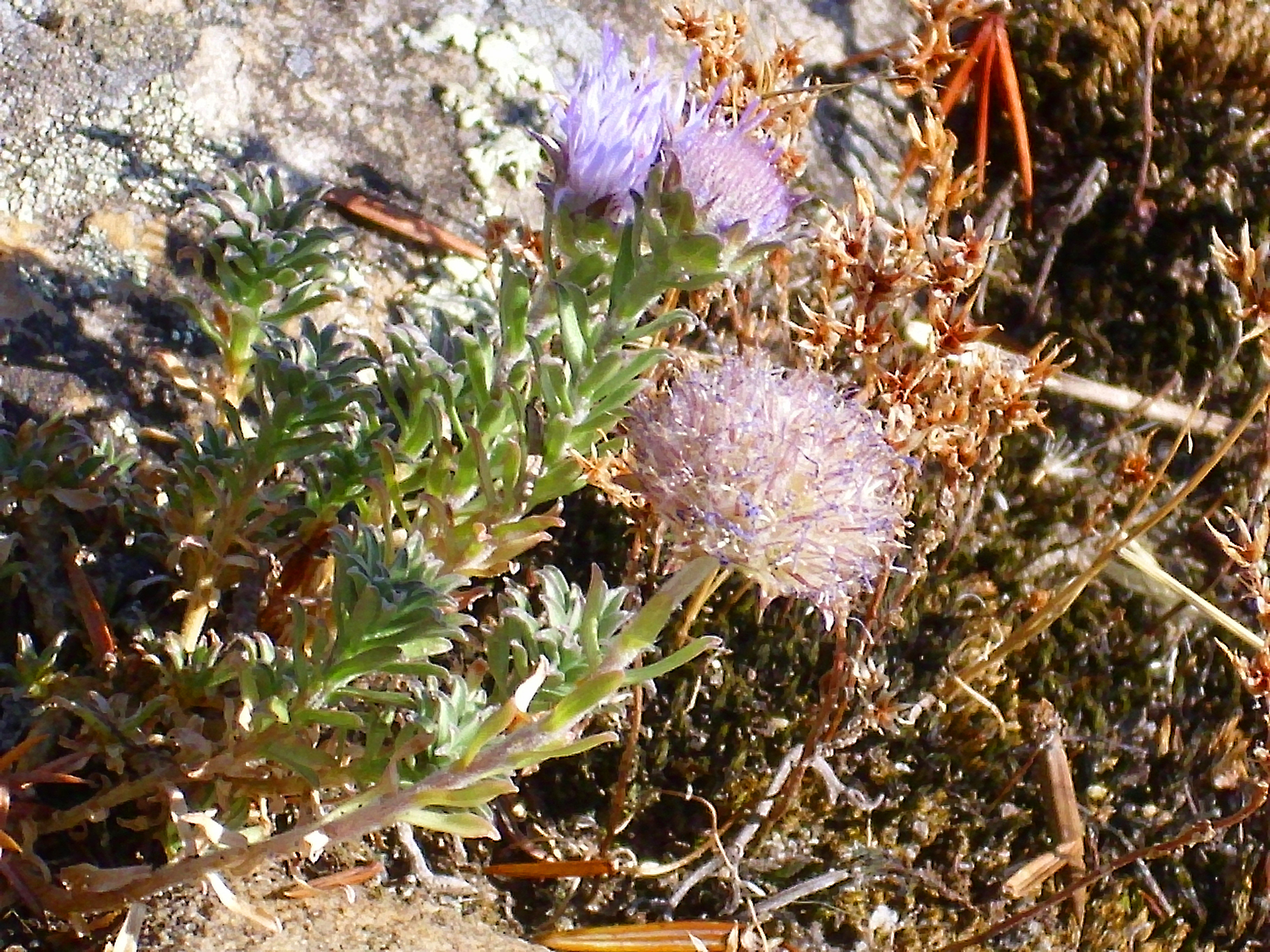 Jasione crispa habit, Sierra Madrona, Spain